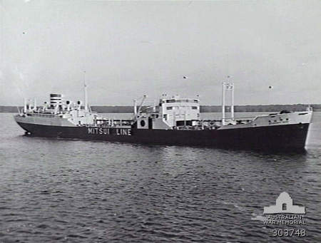 Oil tanker Otowasan Maru (音羽山丸) : National flag on her side indicating her neutrality